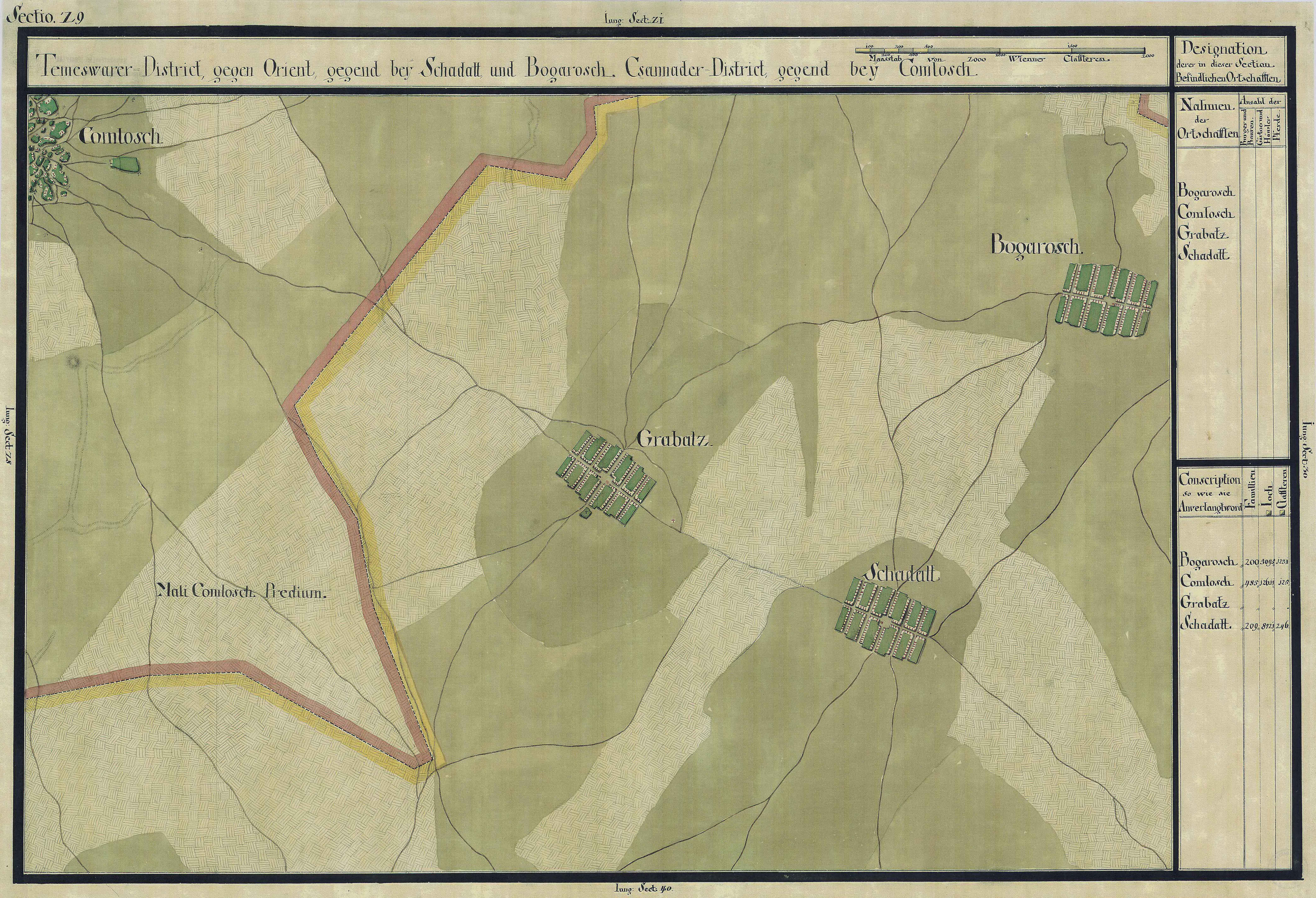 The Banat region in the cadastral maps: Josephinische Landesaufnahme, 1769-72. Josephinische Landaufnahme pg029